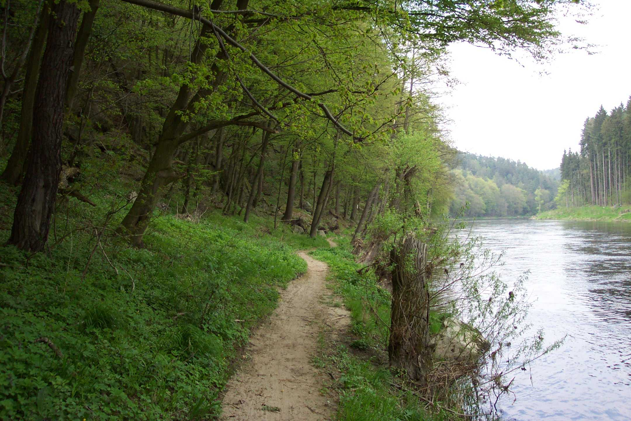 Sedláčkova stezka path near "U Hesouna" place, few kilometres north from Písek on Otava River, Czech Republic